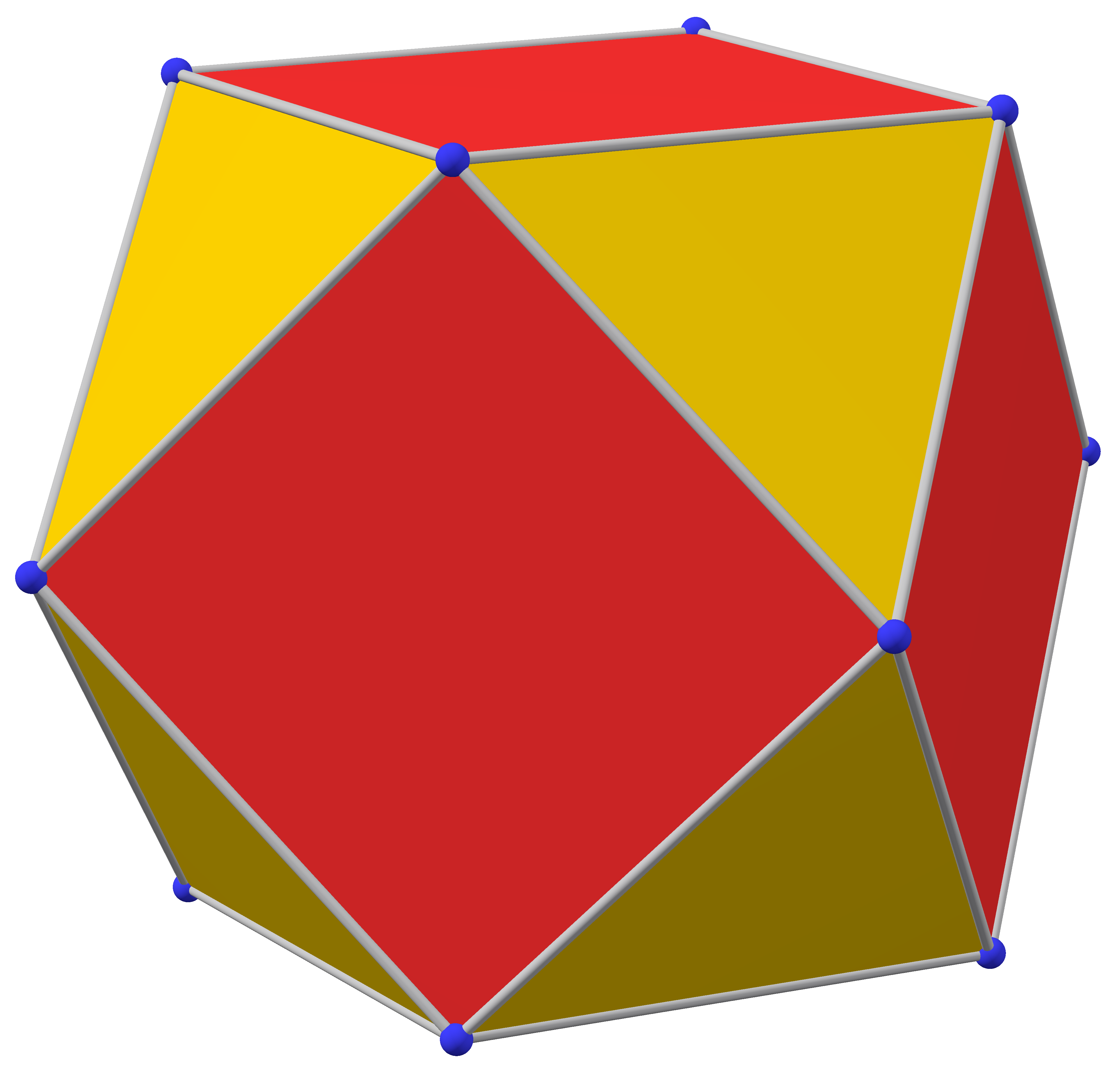 Image set Platonic, Archimedean and Catalan solids with direction colors Part of Polyhedra with direction colors (image set) This polyhedron has a form of octahedral symmetry. There are 12 blue elements. This set contains renderings of Platonic, Archimedean and Catalan solids. For most of them the sphere shown on the right is the polyhedrons midsphere. The geometric properties of these images have been calculated with Python, and they have been rendered with POV-Ray. The source code used can be found on GitHub. The POV-Ray sources are in this folder. This image was created with POV-Ray. This PNG graphic was created with Python. The images in this set have consistent sizes and angles. Please do not overwrite them. If this image has a margin, there is probably a variant without it — or it can be uploaded. (Filename with " max" at the end.)